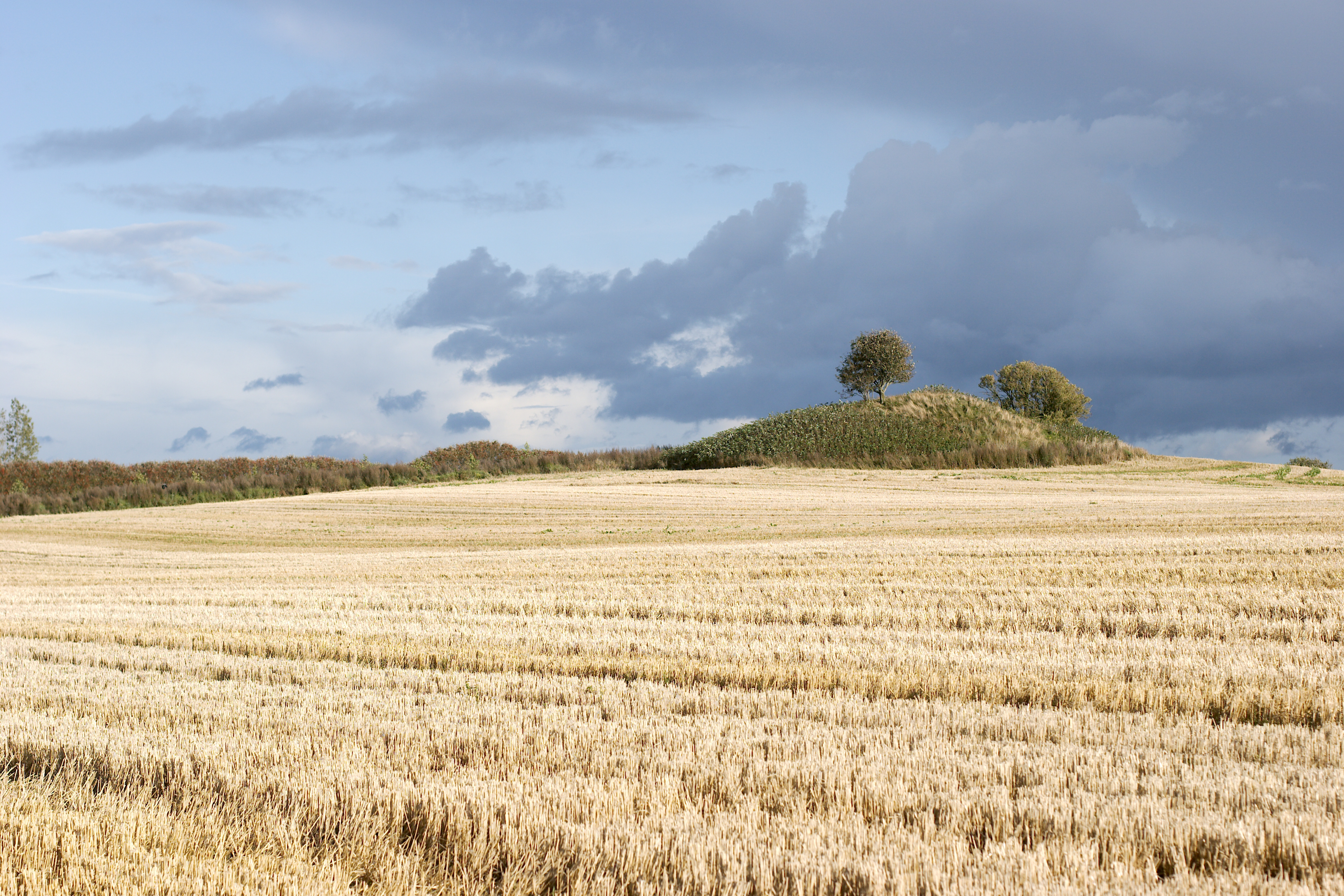 Tumulus, Stenhøj, at Borum near Aarhus